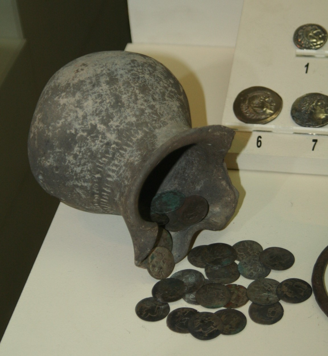 Treasuey from Nuydi (Agsu Rayon of Azerbaijan) with silver coins of Caucasian Albania (copies of Alexander the Great coins). Museum of History of Azerbaijan.